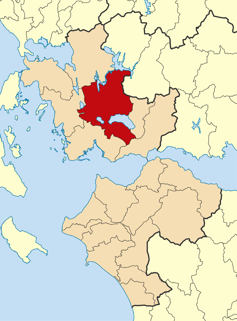 Locator map for Agrinio municipality in Greek region Western Greece (2011)